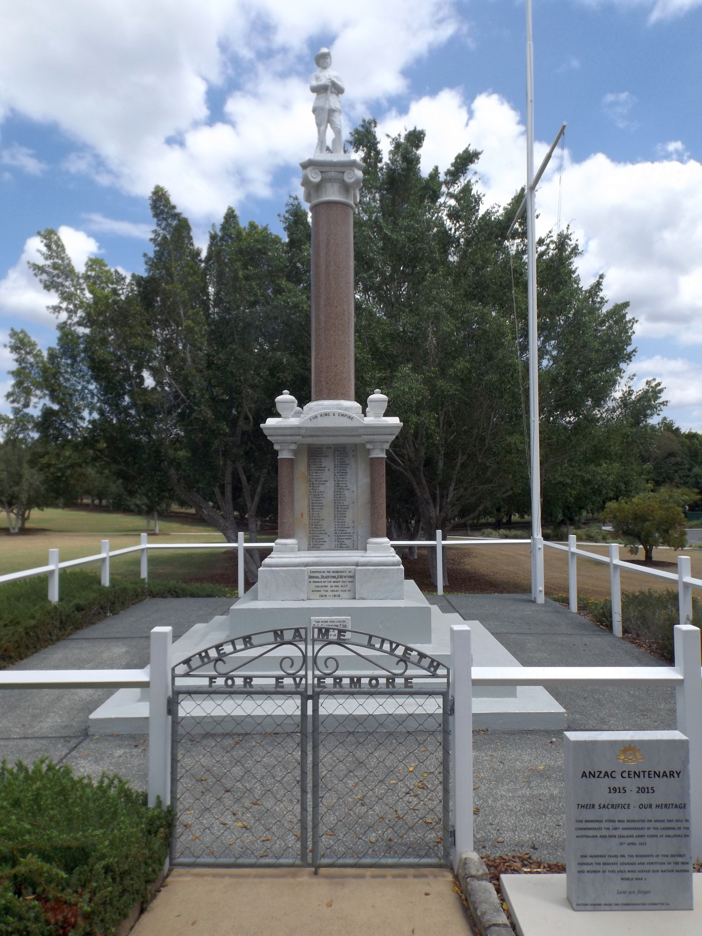 Photo of Booval War Memorial at Cameron Park, Booval, Ipswich, Queensland, Australia.